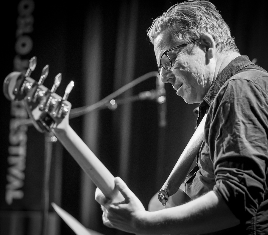 Audun Erlien performs with Mathias Eick at the stage of Nasjonal Jazzscene Victoria. The concert was part of the Oslo Jazz Festival in Norway and took place on 16. August 2016. Lineup:Mathias Eick (trumpet)Andreas Ulvo (piano)Håkon Aase (violin)Audun Erlien (bass)Torstein Lofthus (drums)